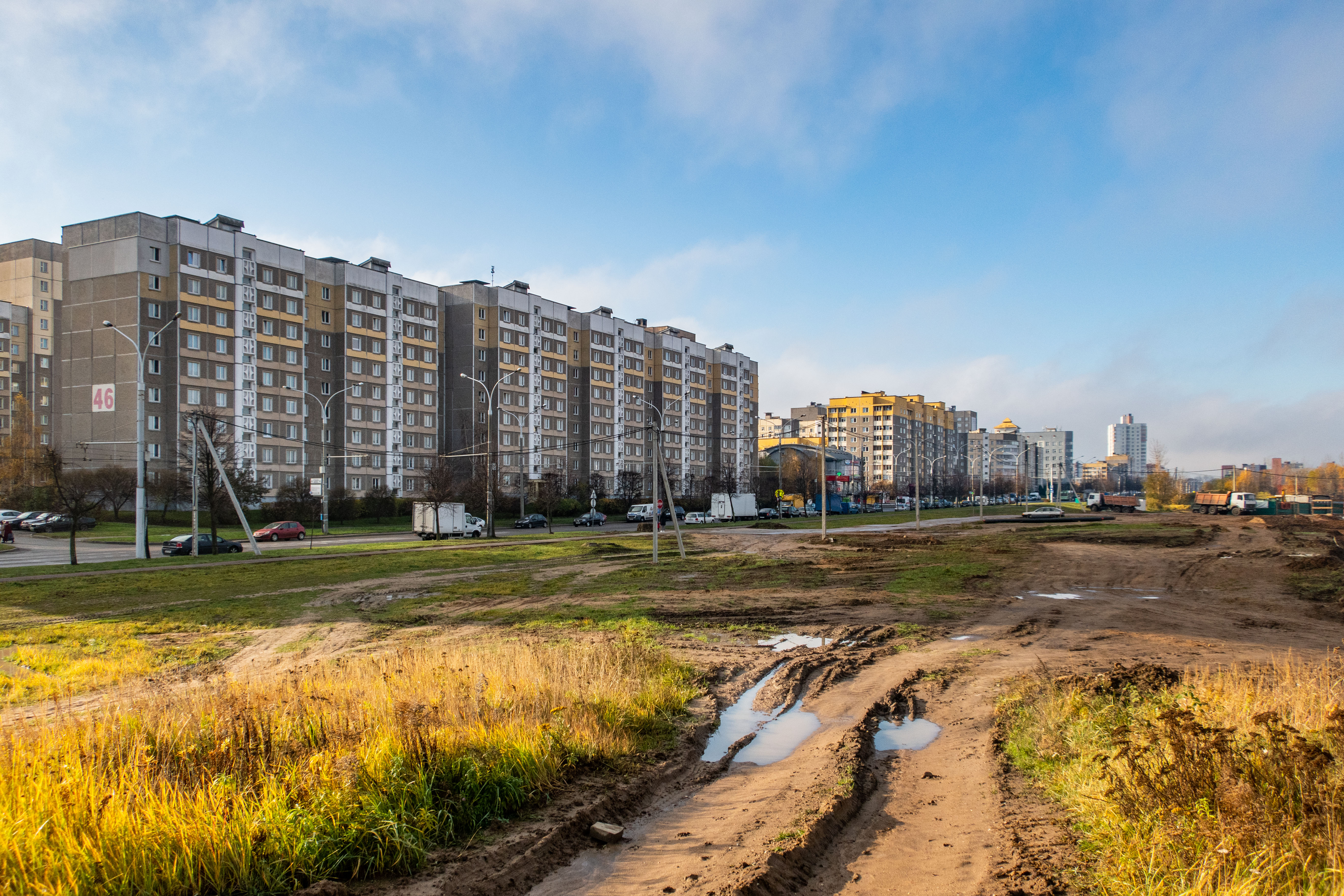 Janki Lučyny street. Minsk, Belarus